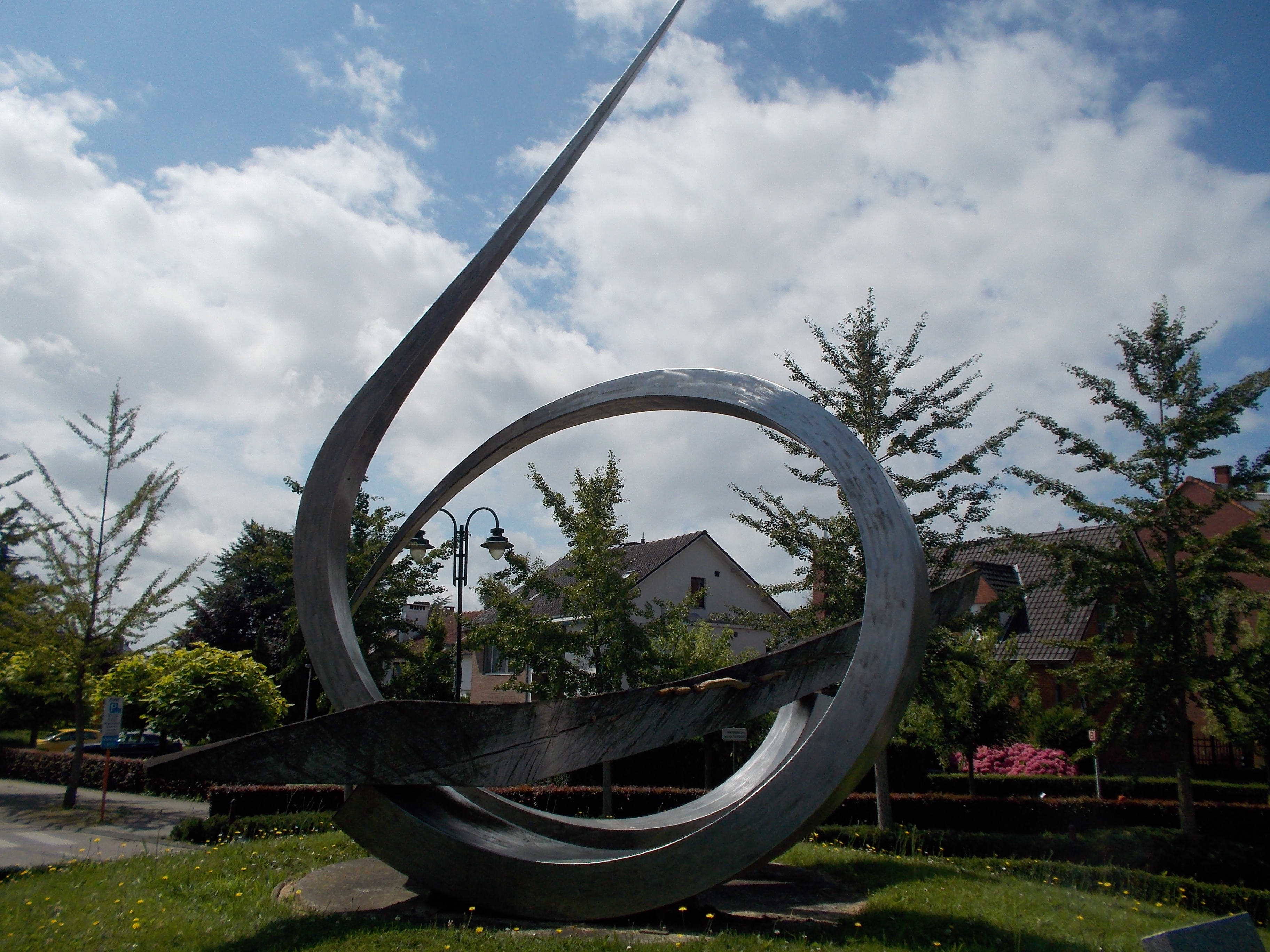 The artwork "Balance" ("Evenwicht" in Dutch) by Rainer Gross from 2000 in Kraainem, Belgium. The work symbolizes interlocked wood and metal splinters, referring to traditional crafts and masonry in the area.